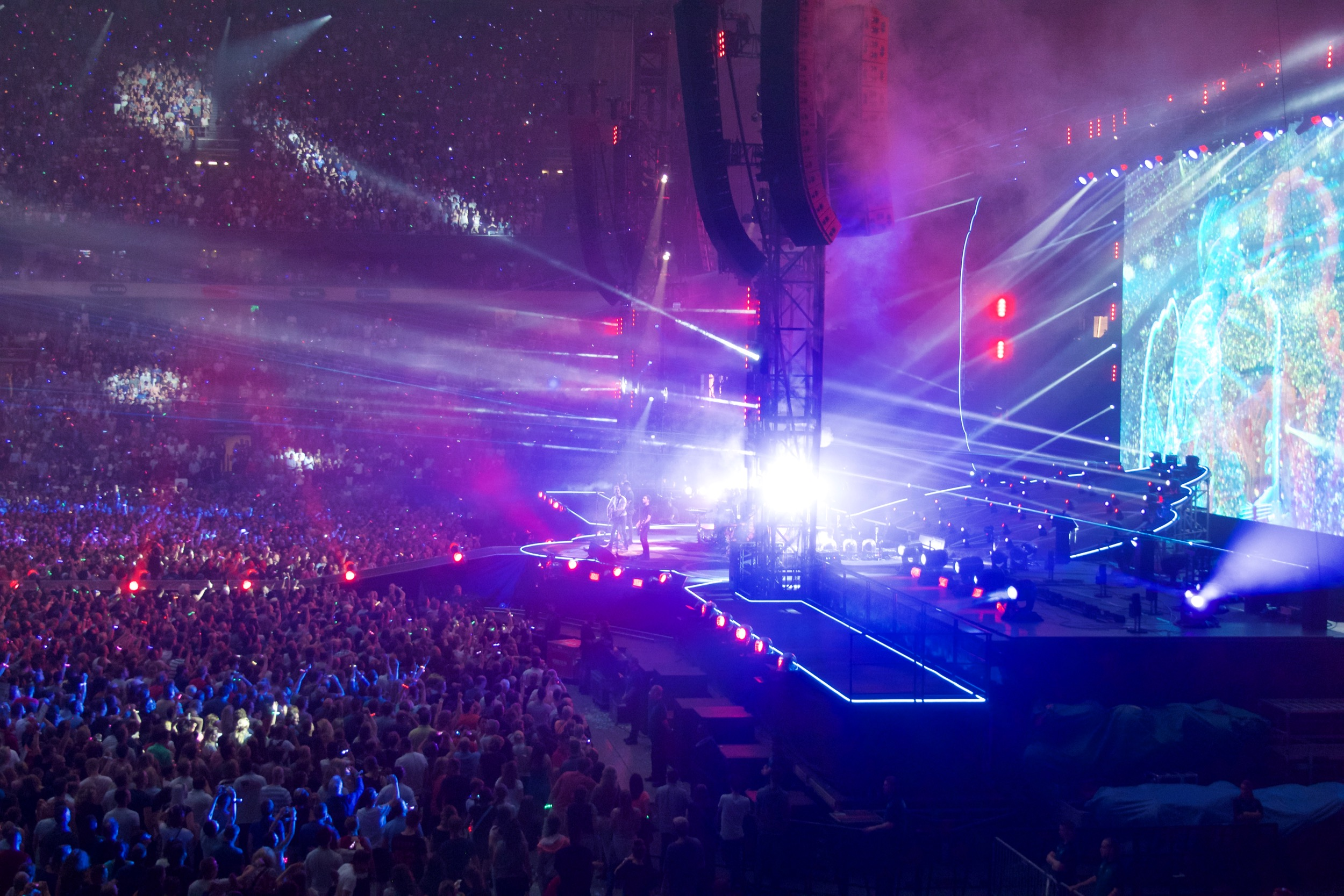 Coldplay perform at the Amsterdam Arena, during the A Head Full of Dreams Tour, 24 June 2016.